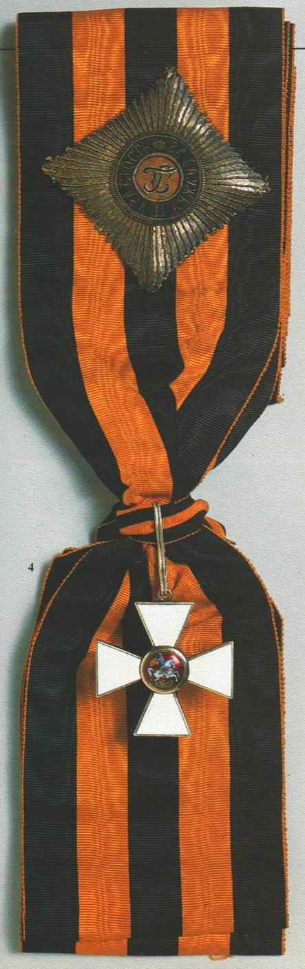 The Military Order of the Saint Grand Martyr and the Triumphant George.